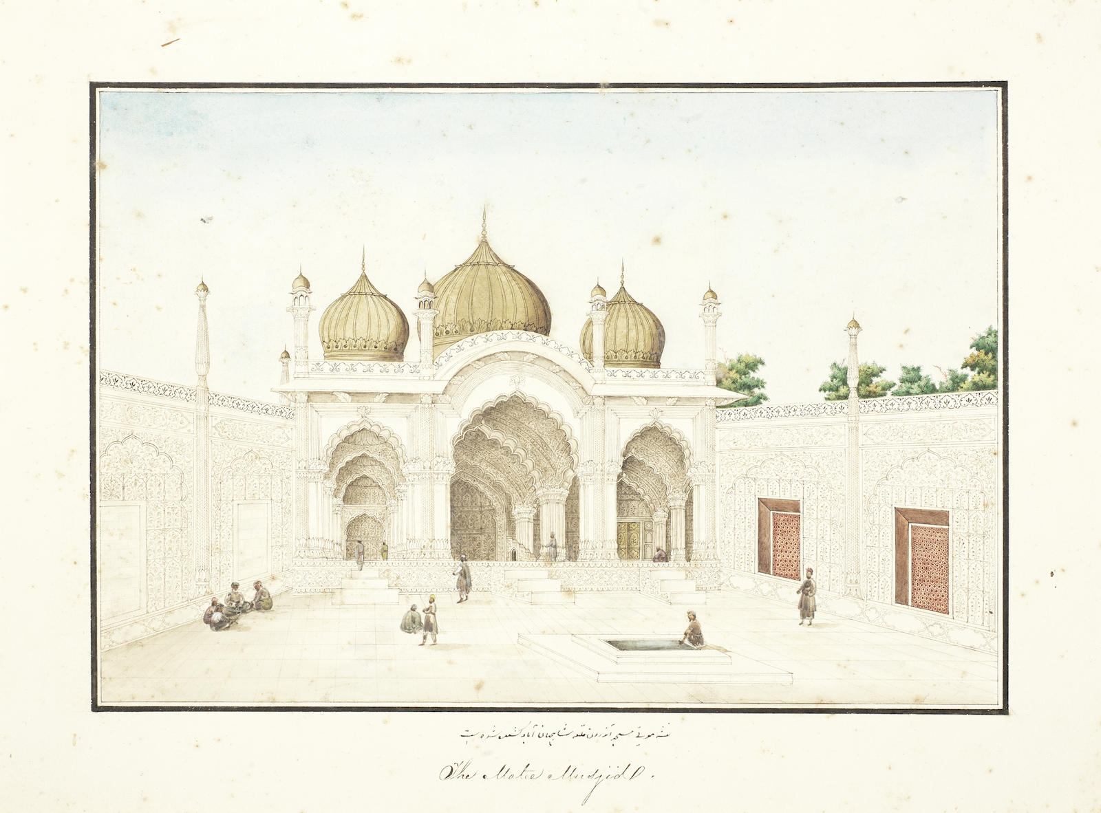 The Motee Masjid in the Red Fort. A series of 31 paintings by Ghulam Ali Khan (fl. 1817-55), consisting of views of monuments in and around Delhi, and including four portraits of the last Mughal Emperor Bahadur Shah II (reg. 1837-58) and his sons. Watercolour and gold on paper, black margin rules, three title pages, three sheets of portraits, all with identifying inscriptions in English and in Persian in nasta'liq script in black ink, the portraits with further inscriptions in nasta'liq script with the date November 1852 (Christian date written in Arabic), in later mounts, loose in contemporary green leather-covered despatch box, the lid embossed in gold DELHEE 1854. Size paintings 290 x 215 mm. and slightly smaller; mounts 318 x 394 mm.; box 435 x 365 x 110 mm.